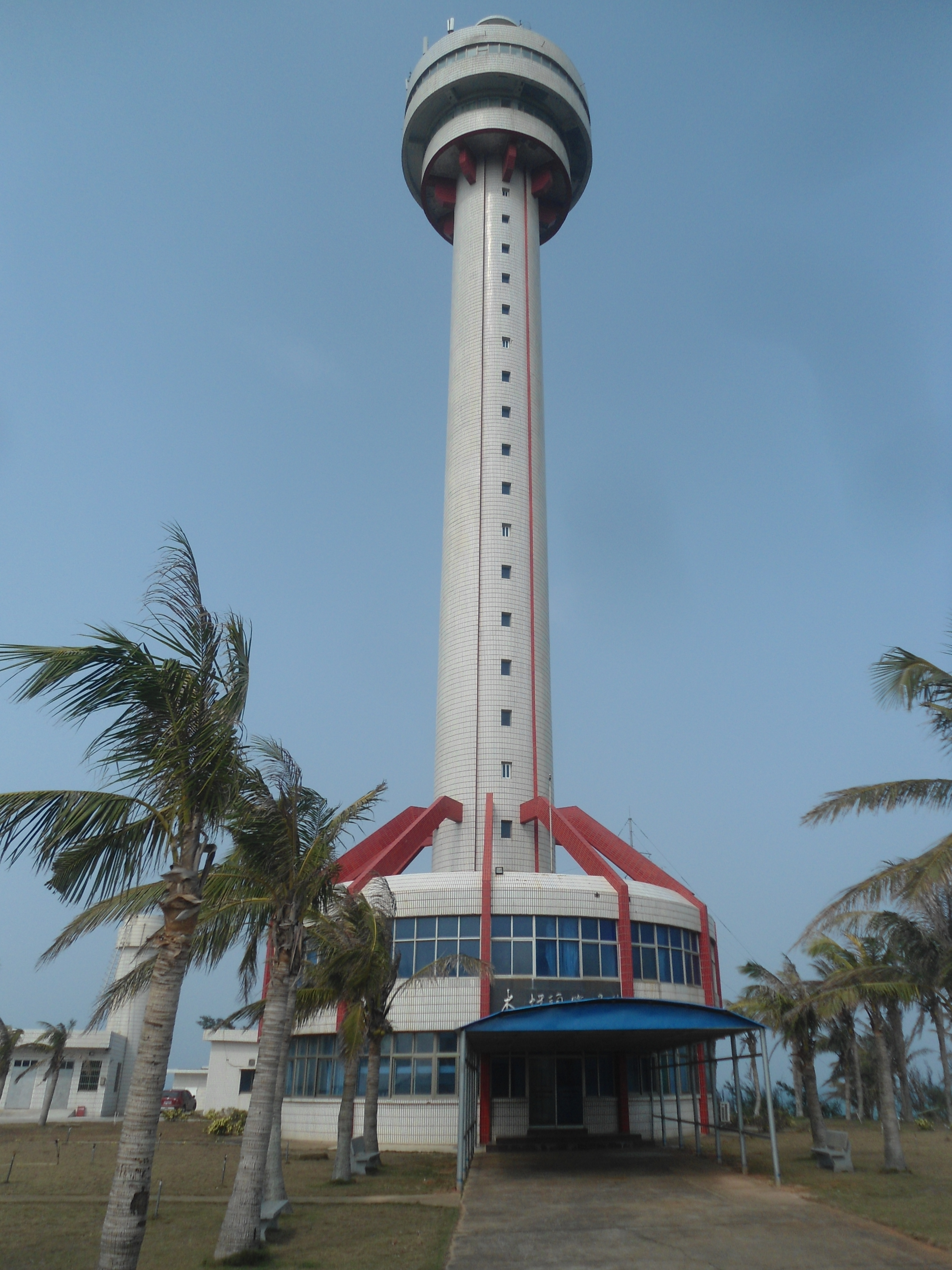 Mulan Tou Lighthouse in 2015